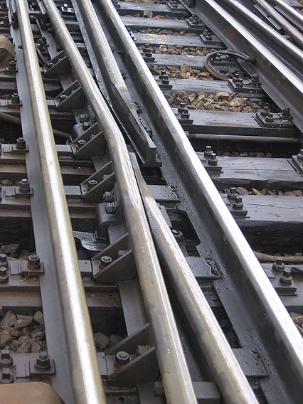 double frog with moveable tongues